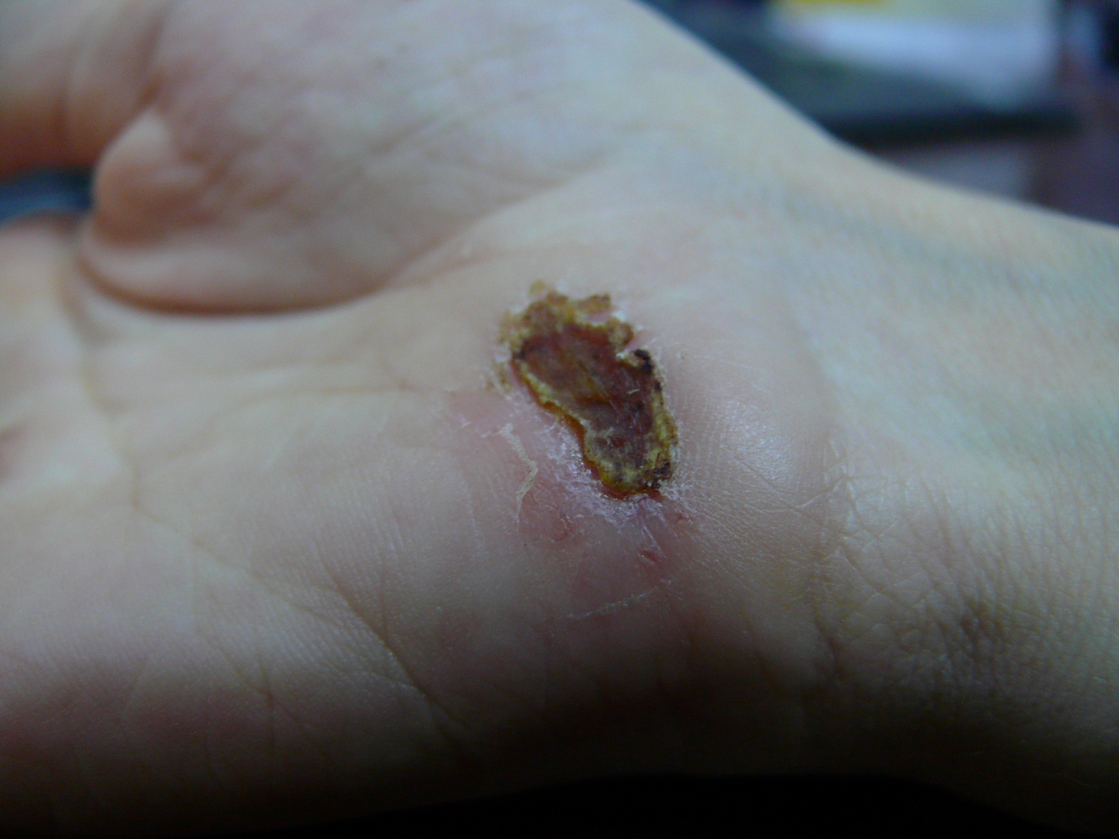 Wound on palm of hand 13 days after falling off a bike onto concrete. Previous photos: Day 1: Image:Wound on palm of hand.jpg Day 2: Image:Wound on palm of hand - day 2.jpg Day 3: Image:Wound on palm of hand - day 3.jpg Day 4: Image:Wound on palm of hand - day 4.jpg Day 5: Image:Wound on palm of hand - day 5.jpg Day 6: Image:Wound on palm of hand - day 6.jpg Day 7: Image:Wound on palm of hand - day 7.jpg Day 8: Image:Wound on palm of hand - day 8.jpg Day 9: Image:Wound on palm of hand - day 9.jpg Day 10: Image:Wound on palm of hand - day 10.jpg Day 11: Image:Wound on palm of hand - day 11.jpg Day 12: Image:Wound on palm of hand - day 12.jpg Following photos: Day 14: Image:Wound on palm of hand - day 14.jpg Day 15: Image:Wound on palm of hand - day 15.jpg Day 16: Image:Wound on palm of hand - day 16.jpg Day 17: Image:Wound on palm of hand - day 17.jpg Day 18: Image:Wound on palm of hand - day 18.jpg Day 19: Image:Wound on palm of hand - day 19.jpg Day 20: Image:Wound on palm of hand - day 20.jpg